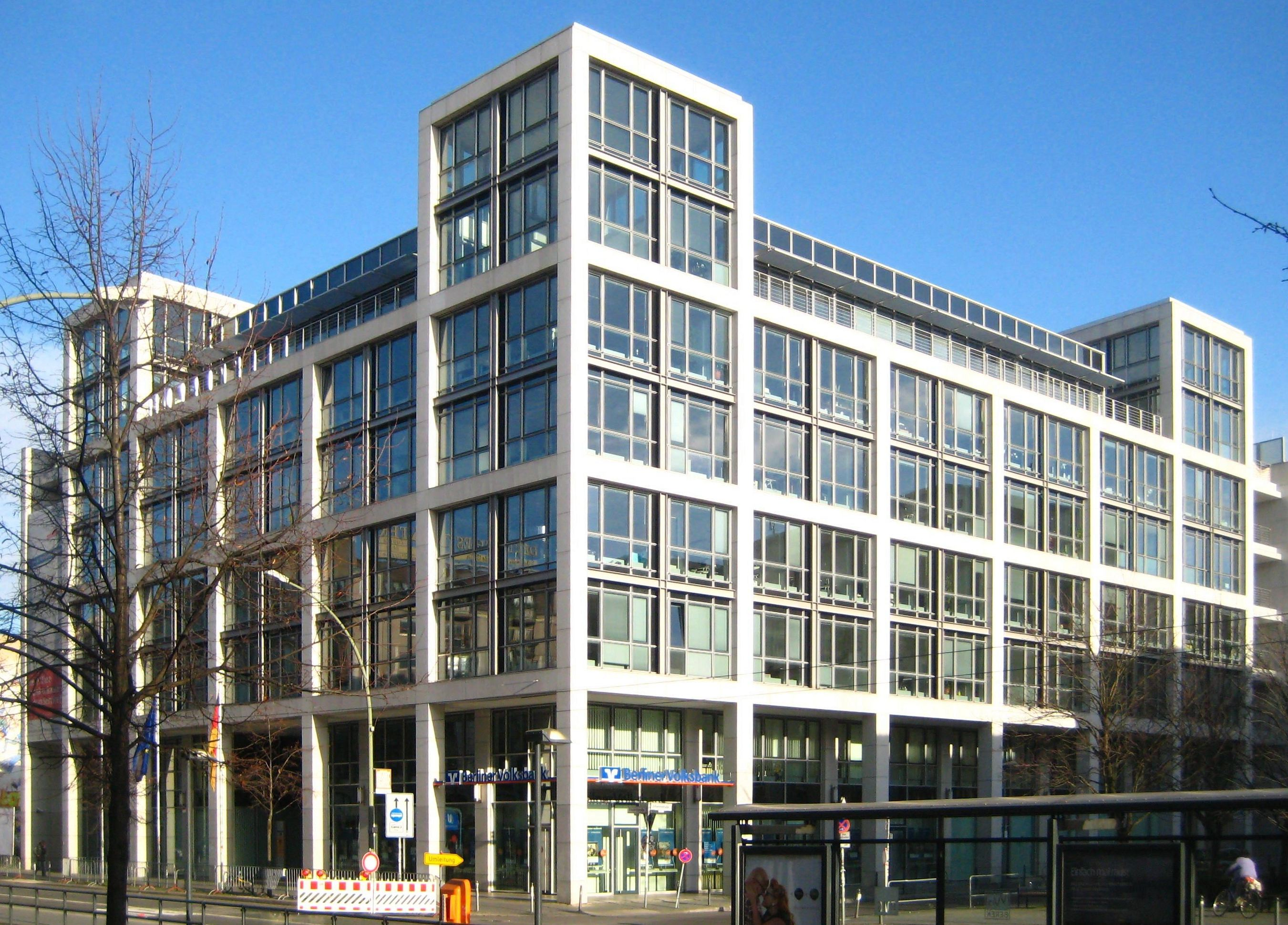 Bürogebäude am Friedirchstadtpalast (Office Building at Friedrichstadtpalast) at Friedrichstraße No. 108 in Berlin-Mitte. It was built 1996-1998 to a design by the architectural office Gerkan, Marg und Partner. Since 2006 it is the official residence of the German Federal Ministry of Health in Berlin.